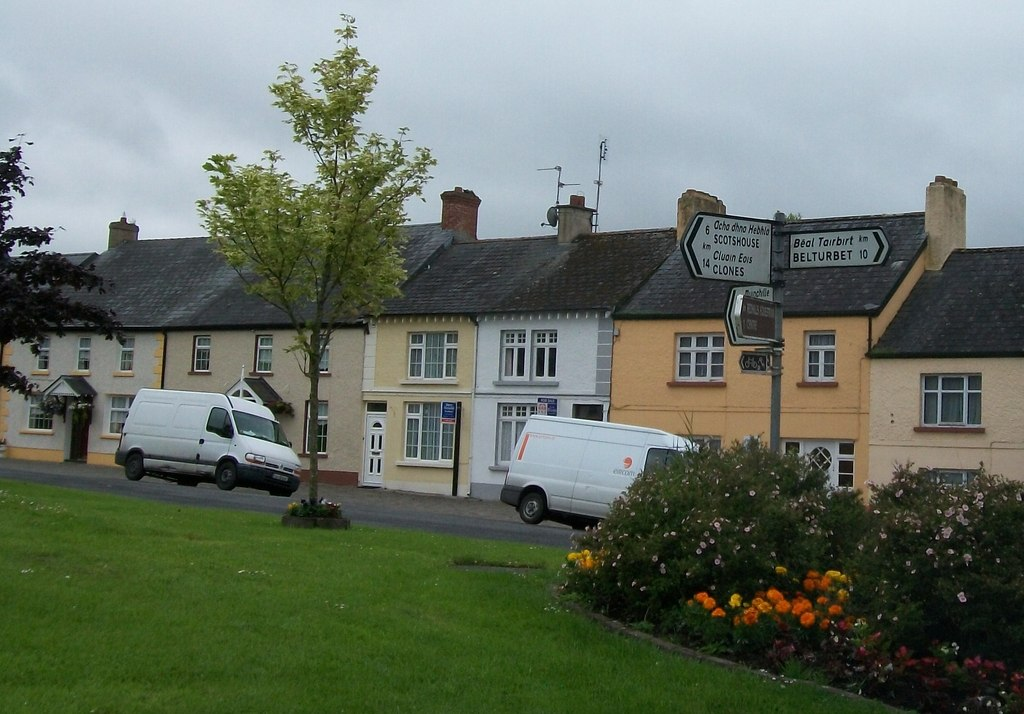 Houses on the south side of the village green at An Cnoc Rua